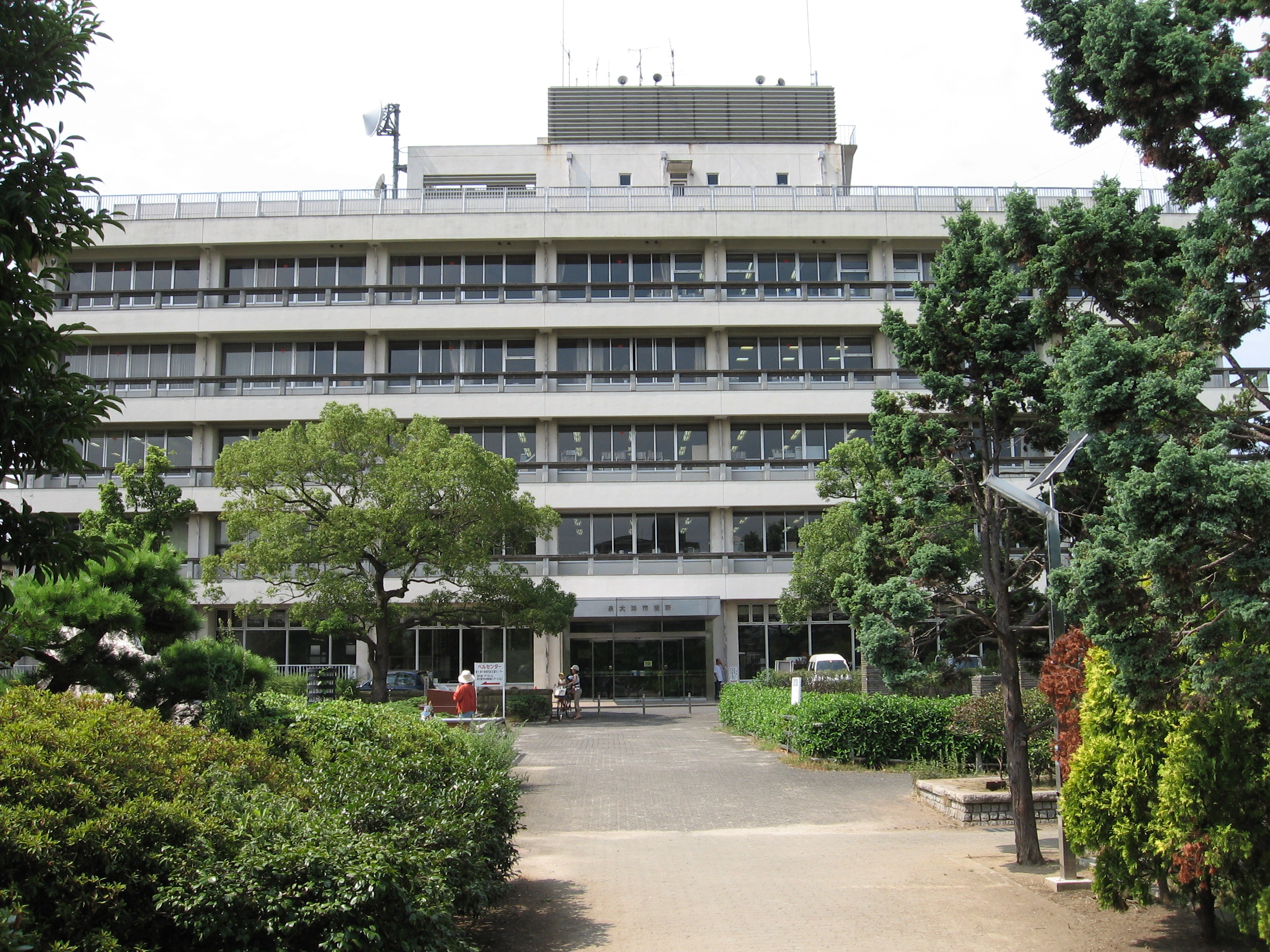 City office of Izumiotsu, Osaka, Japan